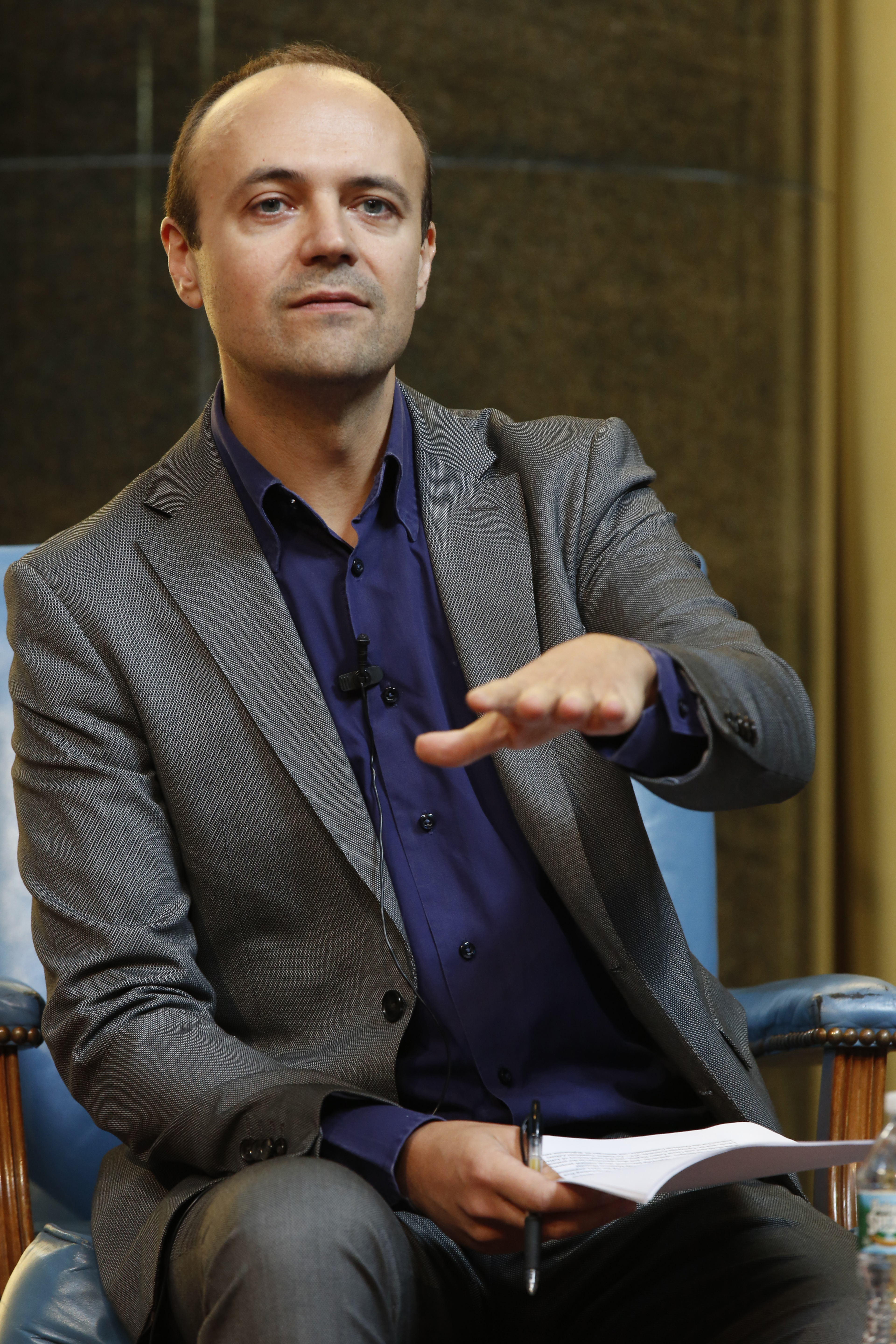 Jorge Otero-Pailos at the interdisciplinary discussion Culture and Heritage after Palmyra at Columbia University Graduate School of Architecture, Planning and Preservation in the City of New York.